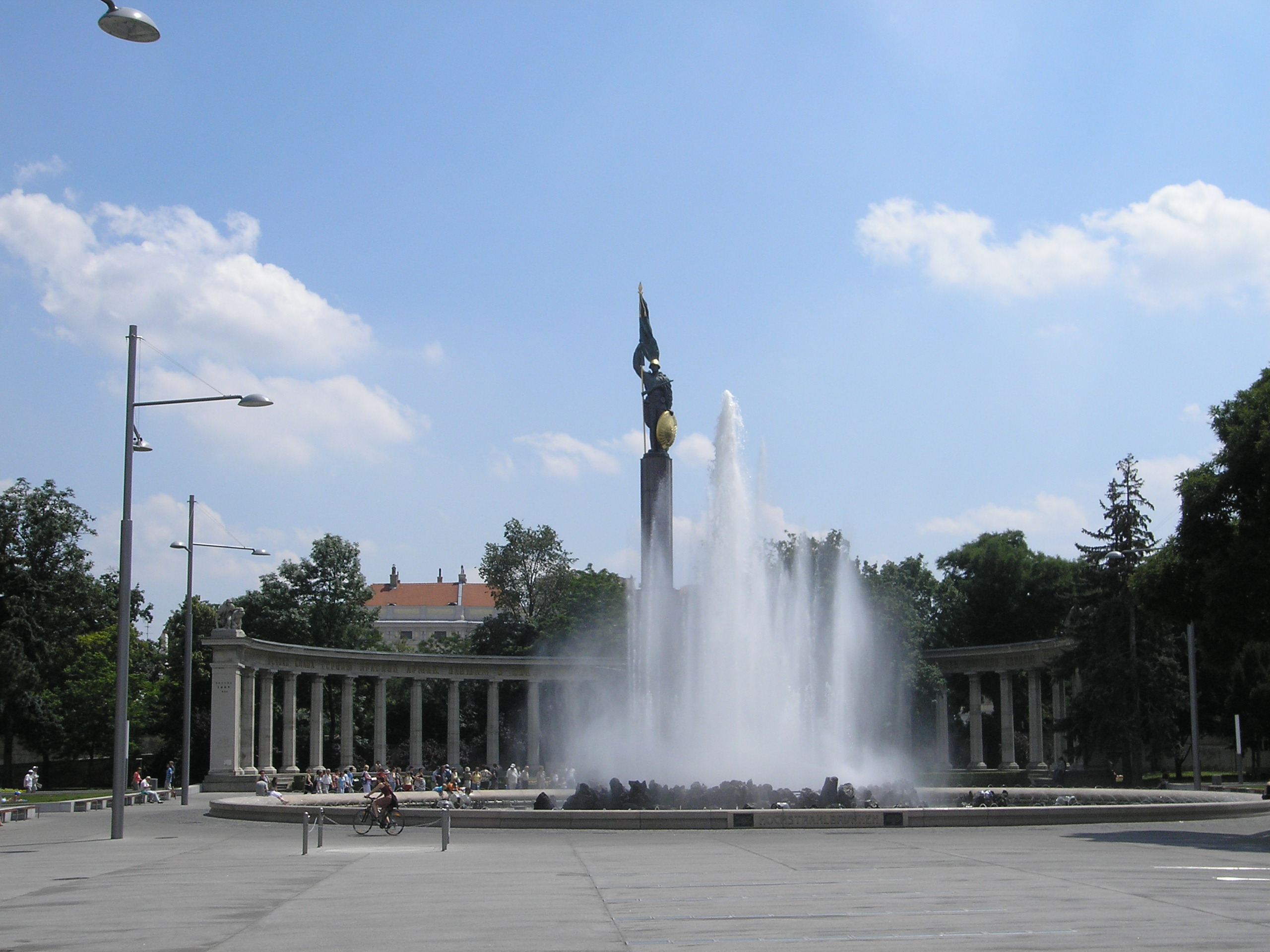 Hochstrahlbrunnen in Vienna, with the monument to the Red Army. Located at Schwarzenbergplatz.